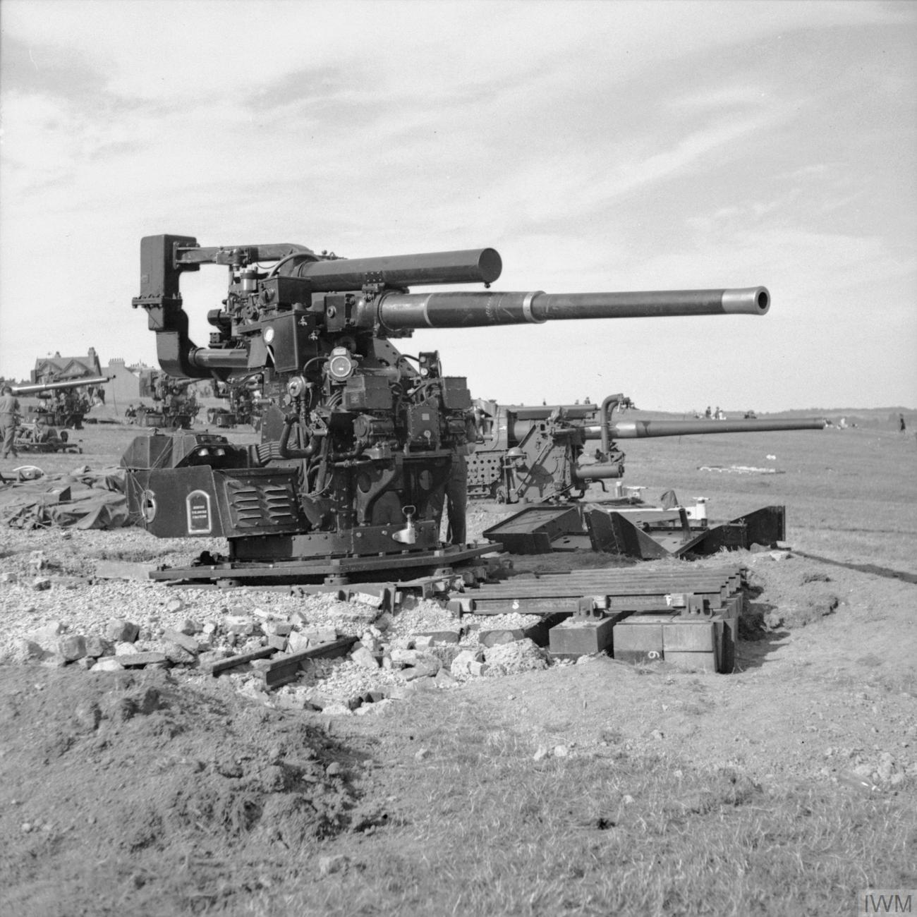 The British Army in the United Kingdom 1939-45 3.7-inch anti-aircraft guns, Hastings, 28 July 1944.